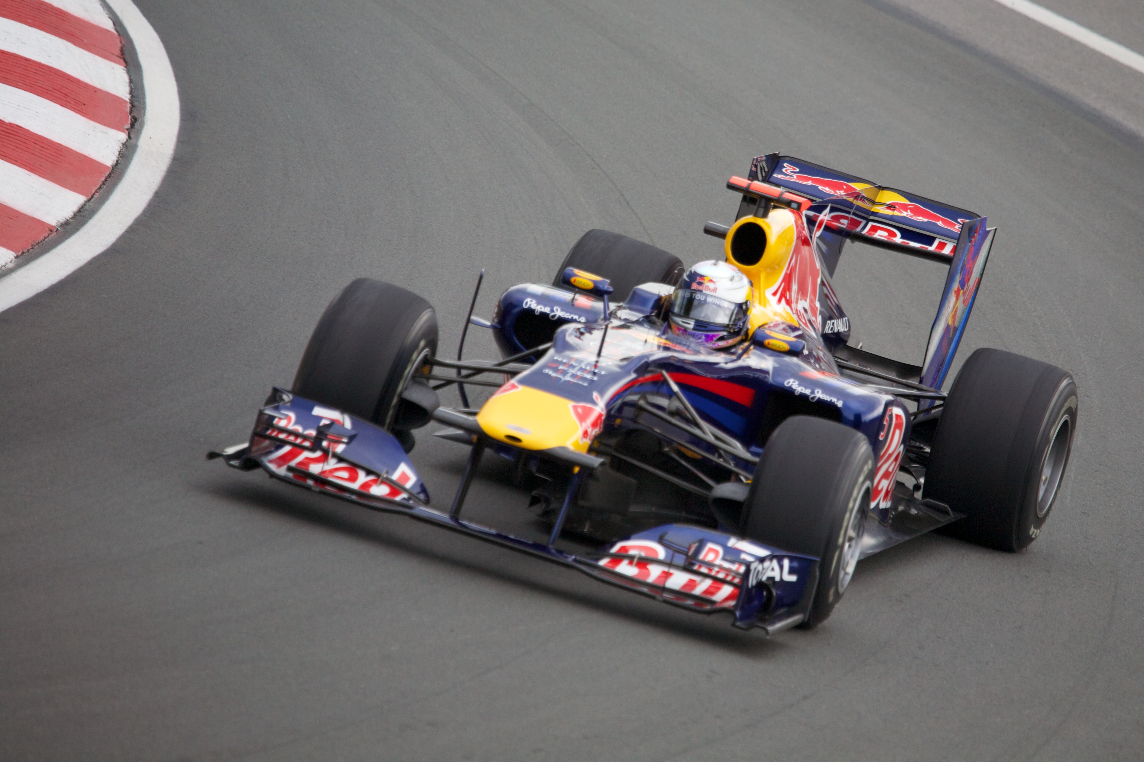 Vettel with some power oversteer coming out of turn 2